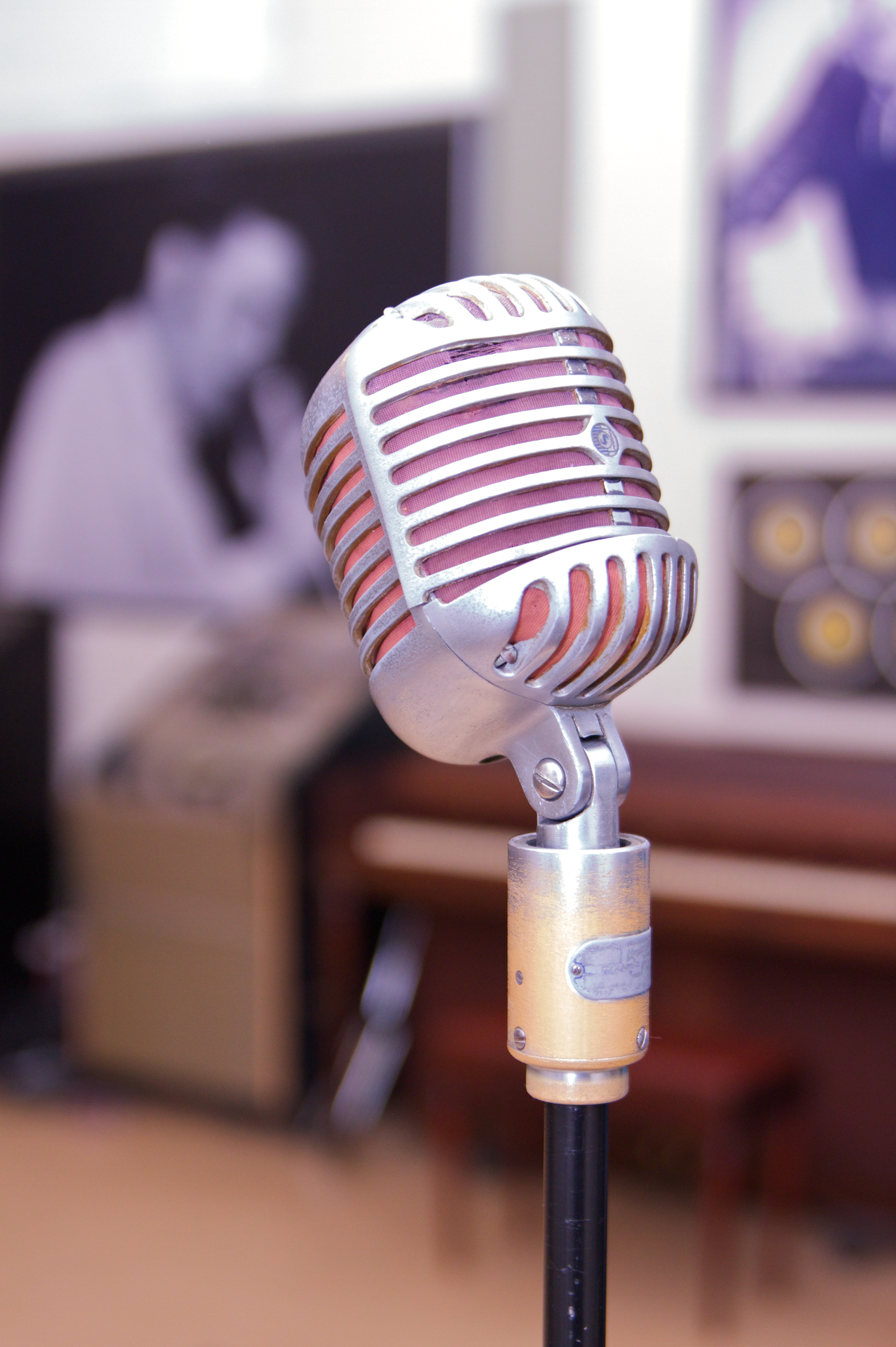 Sun Studios had six of these in the studio the night Elvis made his first recording. While nobody knows for sure, this very well could be the one.